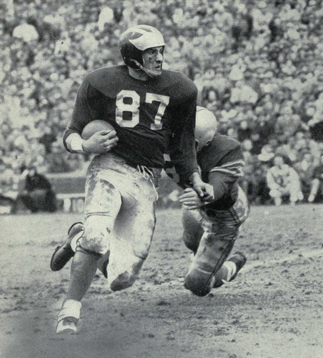 Photograph of Ron Kramer running with the ball in 1955 Michigan - Ohio State game This work is in the public domain because it was published in the United States between 1923 and 1963 and although there may or may not have been a copyright notice, the copyright was not renewed. Unless its author has been dead for the required period, it is copyrighted in the countries or areas that do not apply the rule of the shorter term for US works, such as Canada (50 pma), Mainland China (50 pma, not Hong Kong or Macao), Germany (70 pma), Mexico (100 pma), Switzerland (70 pma), and other countries with individual treaties. See Commons:Hirtle chart for further explanation. This work is in the public domain in the United States because it was published in the United States between 1923 and 1977 without a copyright notice. See this page for further explanation. Note that it may still be copyrighted in jurisdictions that do not apply the rule of the shorter term for US works (depending on the date of the author's death), such as Canada (50 p.m.a.), Mainland China (50 p.m.a., not Hong Kong or Macao), Germany (70 p.m.a.), Mexico (100 p.m.a.), Switzerland (70 p.m.a.), and other countries with individual treaties.